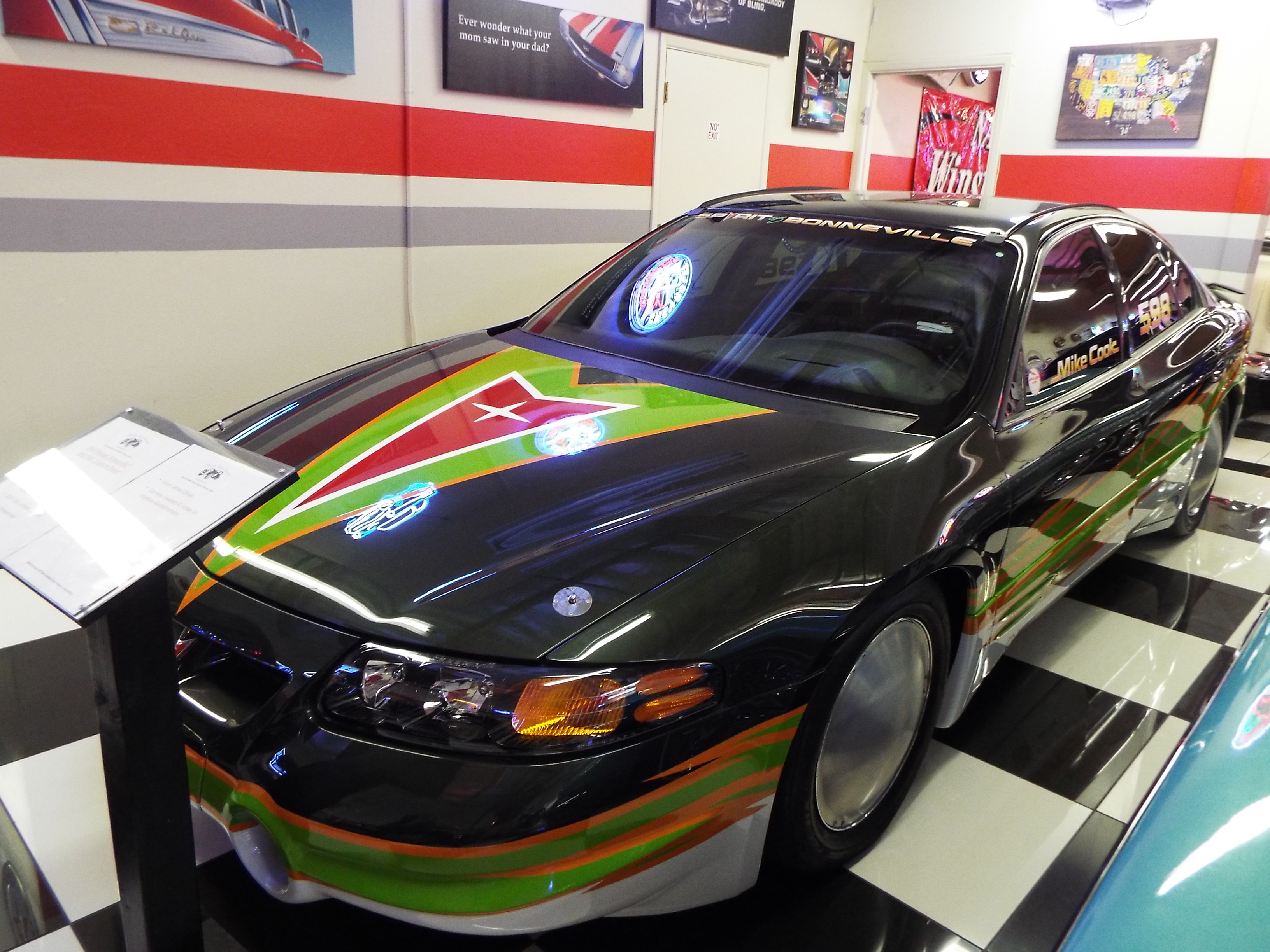 Martin Auto Museum-2000 Pontiac Bonneville Salt Flats Custom Racer